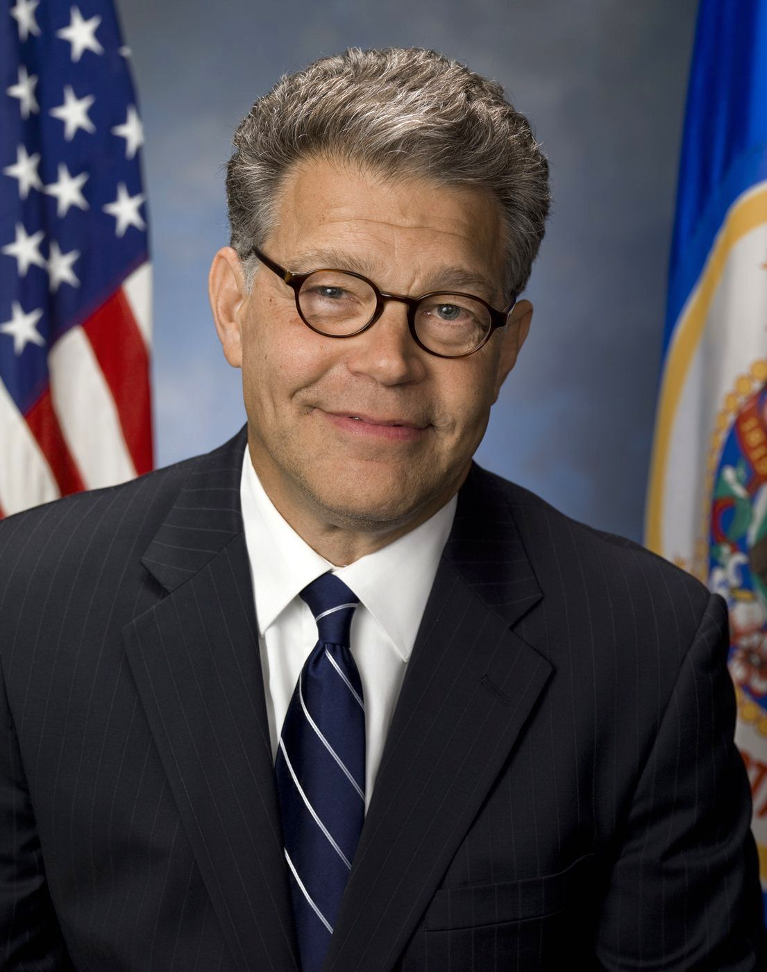 Al Franken (1951–) Alternative names Alan Stuart FrankenDescriptionAmerican politician, comedian and writerDate of birth 21 May 1951 Location of birth Manhattan Work period1973-presentWork location United StatesAuthority control : Q319084 VIAF: 86425630 ISNI: 0000 0001 1681 9289 LCCN: no93004145 NLA: 40034595 MusicBrainz: b0a3dda1-2cc0-404e-a26d-cdb3f302eb41 WorldCat creator QS:P170,Q319084 Senator from Minnesota